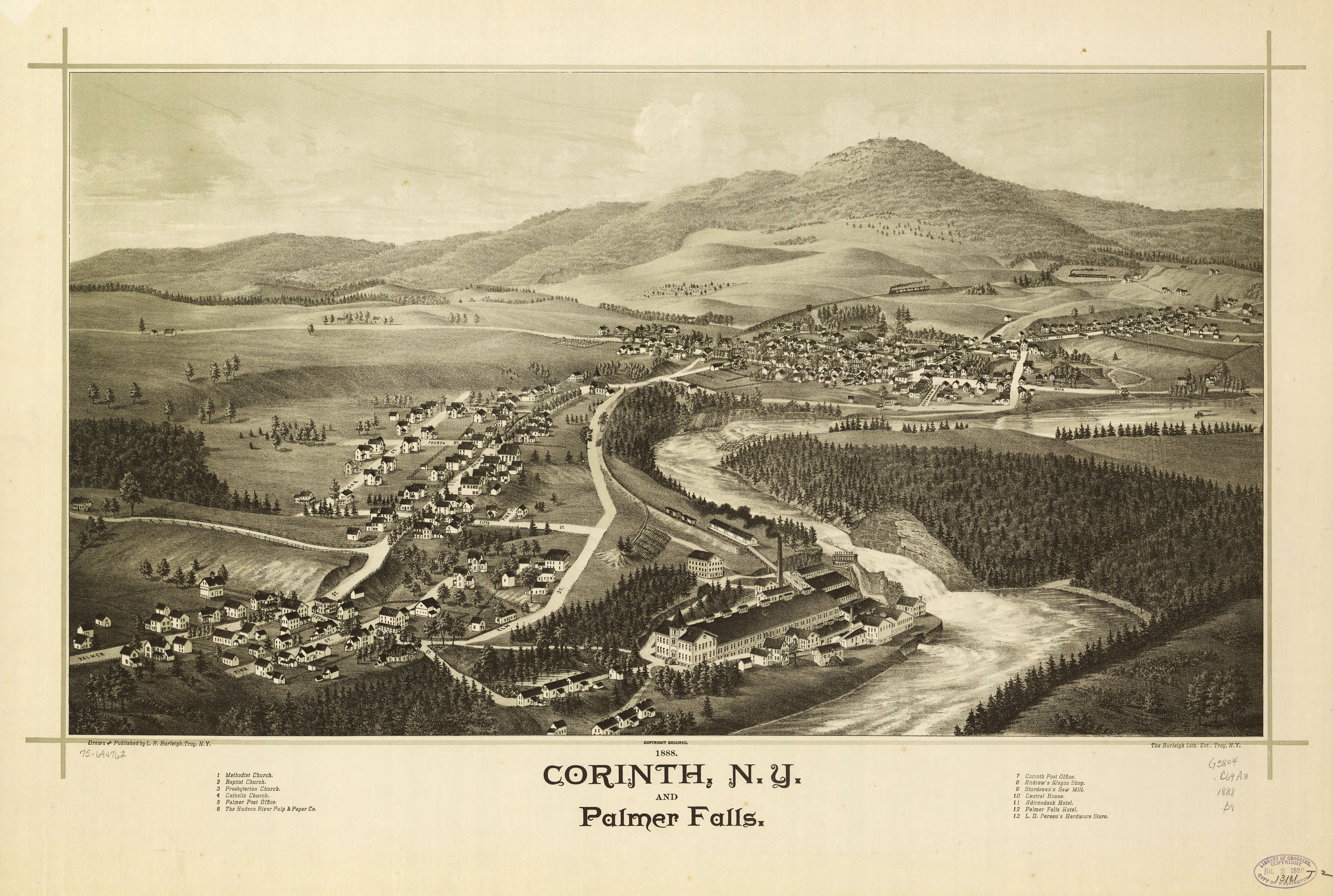 Perspective map not drawn to scale. Bird's-eye-view. LC Panoramic maps (2nd ed.), 554 Available also through the Library of Congress Web site as a raster image. Indexed for points of interest. AACR2: 100; 651/1; 710/1